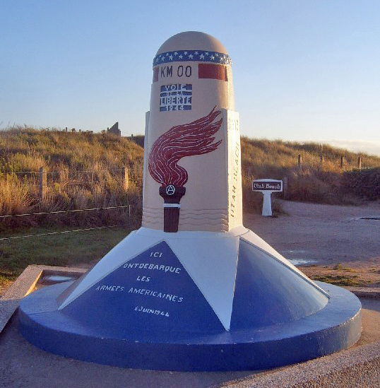 km 00 Liberty Road stone at Utah Beach, early morning